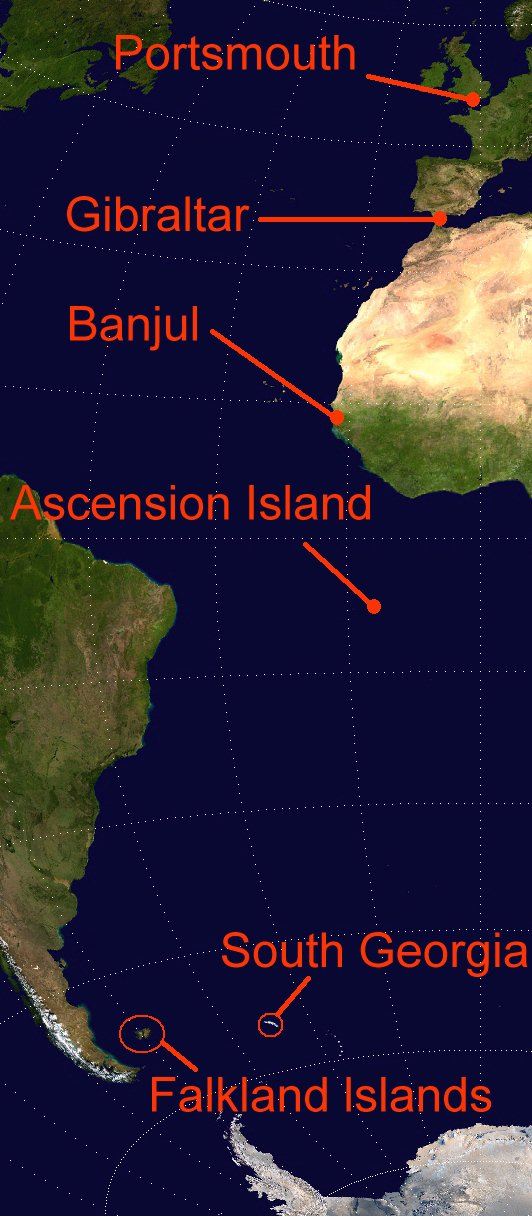 Key points in the Falkland Task Force's Logistics chain. Adapted from Image:Lambert-azimuthal-equal-area.jpg which is in turn adapted from a NASA US government image.